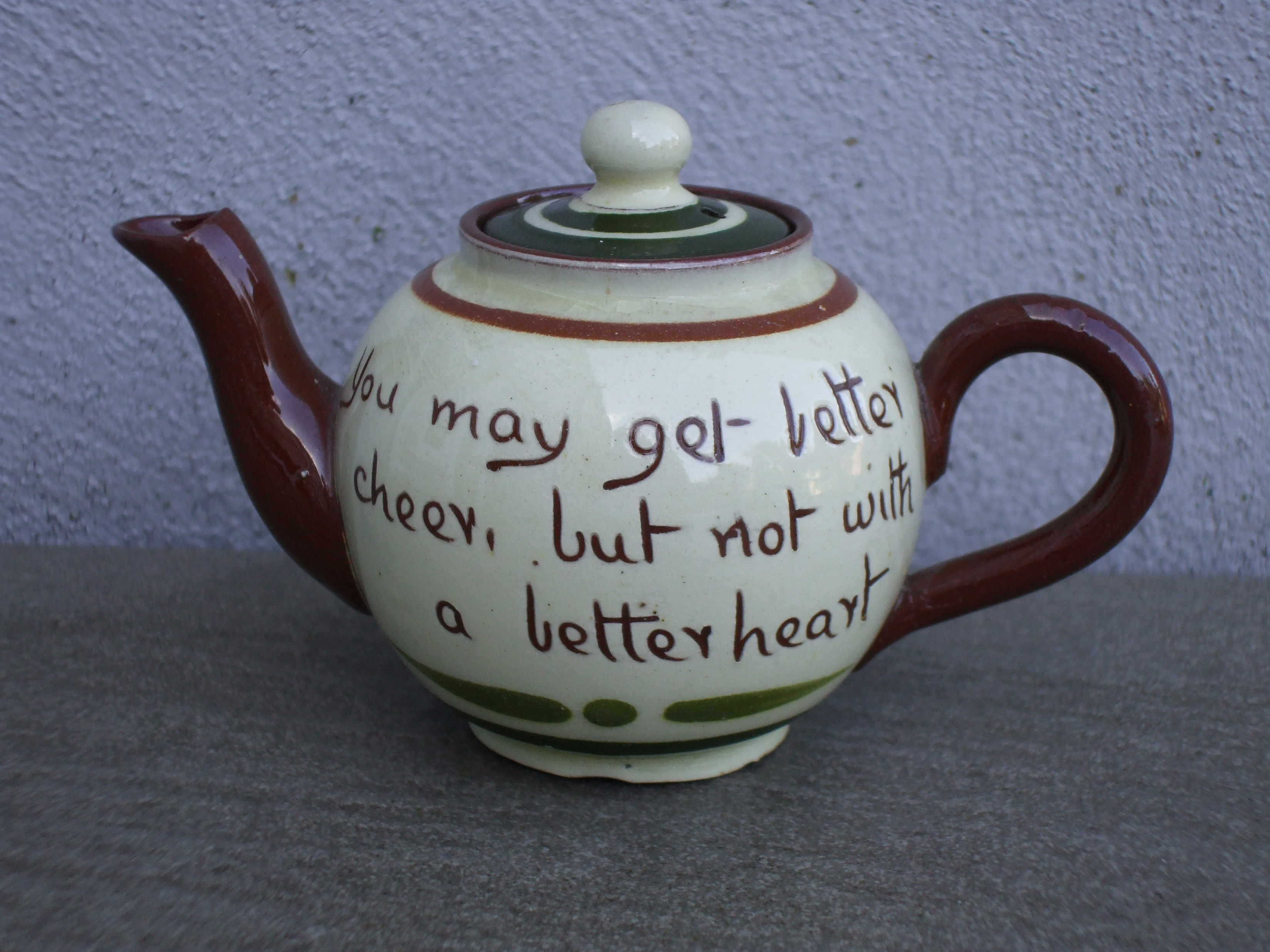 Torquay Motto Pottery Aller Vale Scandy Pattern Small Teapot